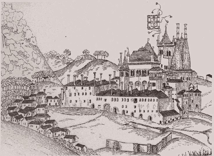 Drawing of Sintra Royal Palace in 1509 (Portugal)